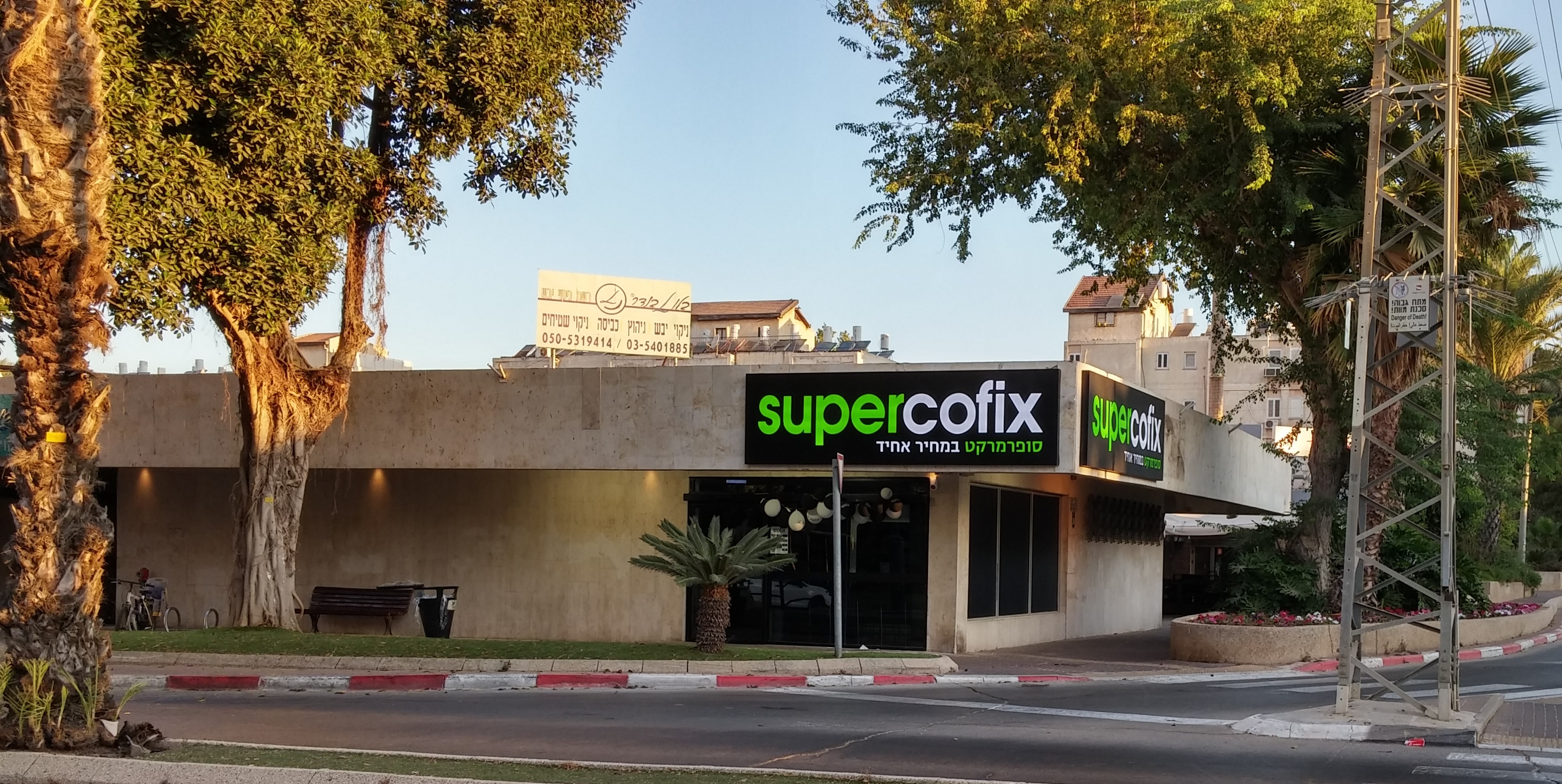 Supercofix branch, Herzliya סניף סופר קופיקס בהרצליה